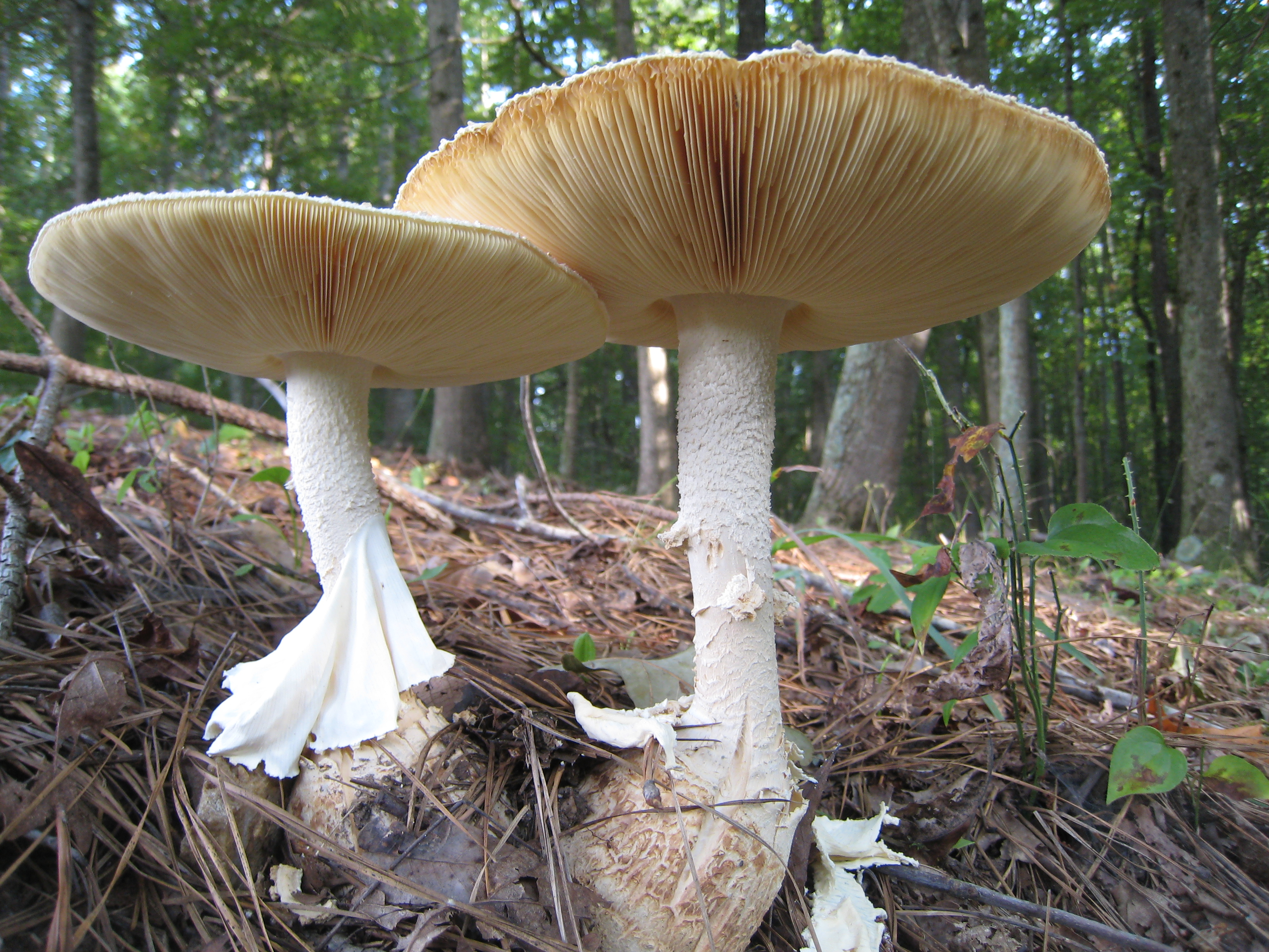 The mushroom Amanita daucipes (Mont.) Lloyd. Specimens photographed in Georgia, USA.